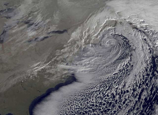 Visible satellite imagery of the North American blizzard east of Cape Cod, Massachusetts, showing a shallow eye-like feature typical of a strong nor'easter.